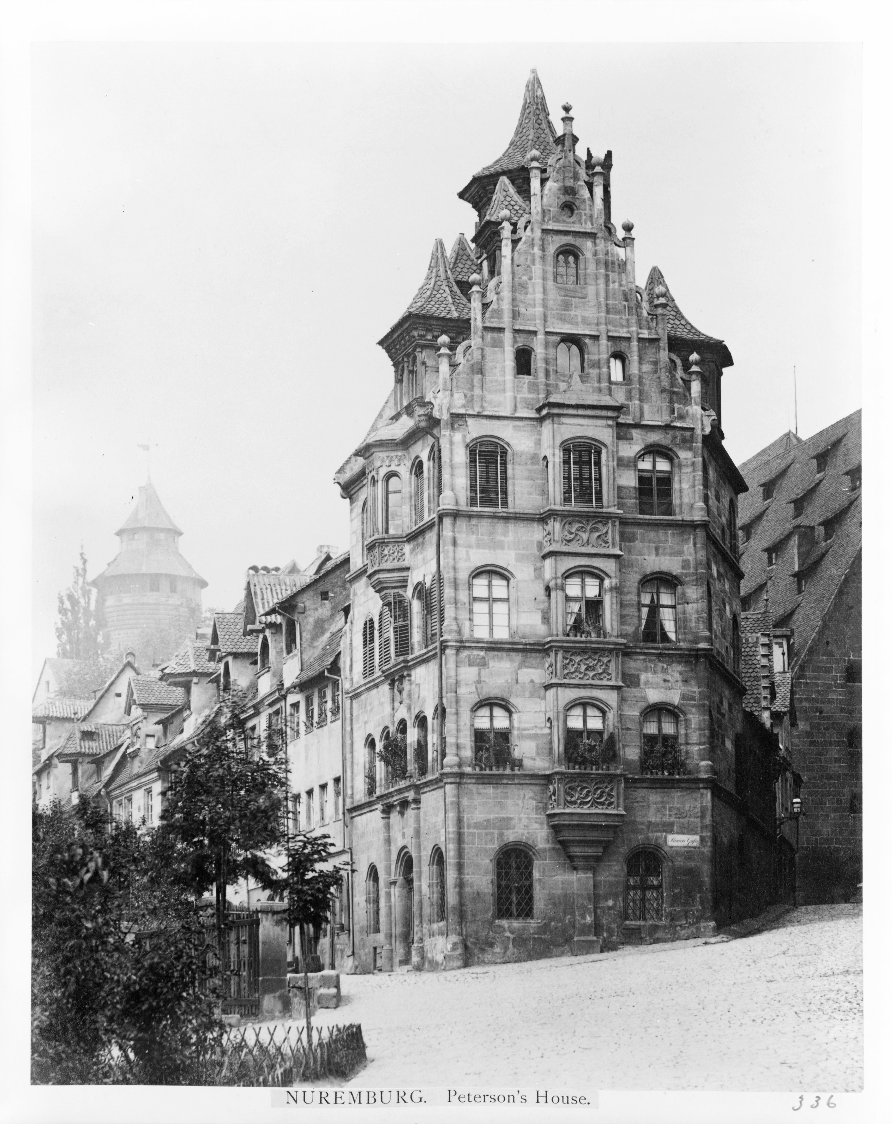 Nuremburg. Peterson's House.